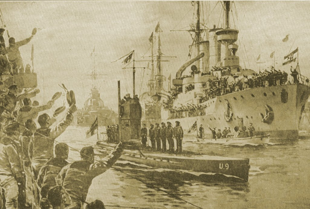 U-9 returns 23 Sept, 1914 - a drawing